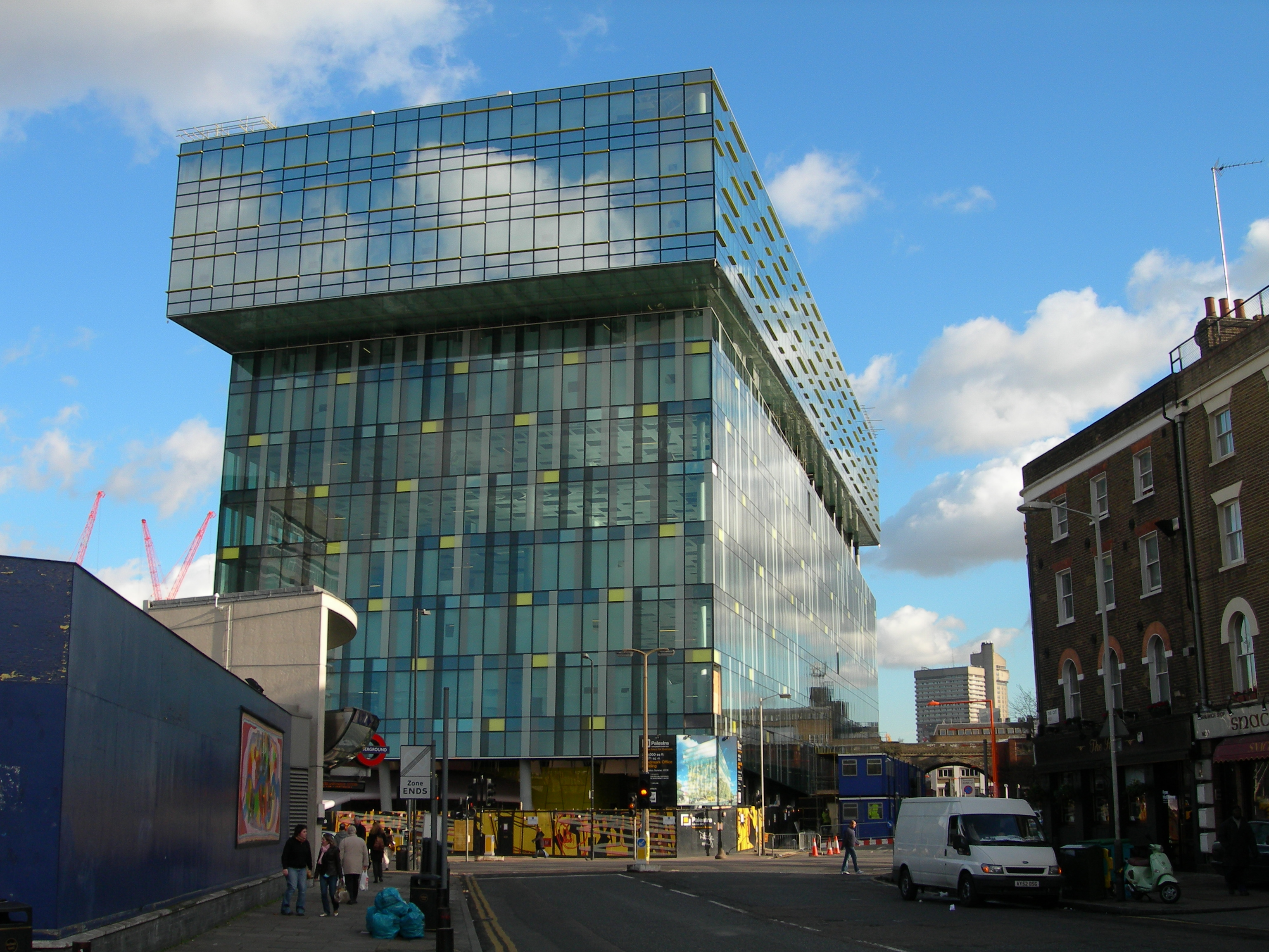 Palestra building, 197 Blackfriars Road, London, SE1 8NJ, UK.